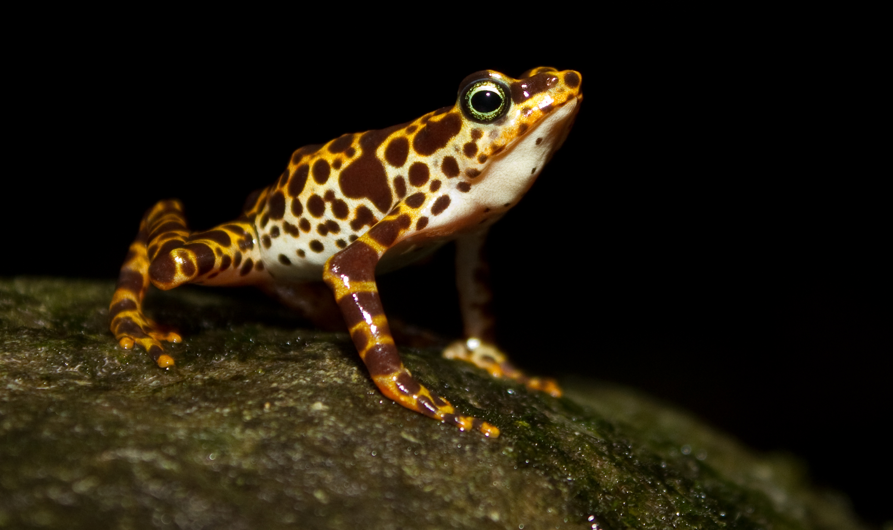 Atelopus certus calling male. Details of the expedition can be found here.